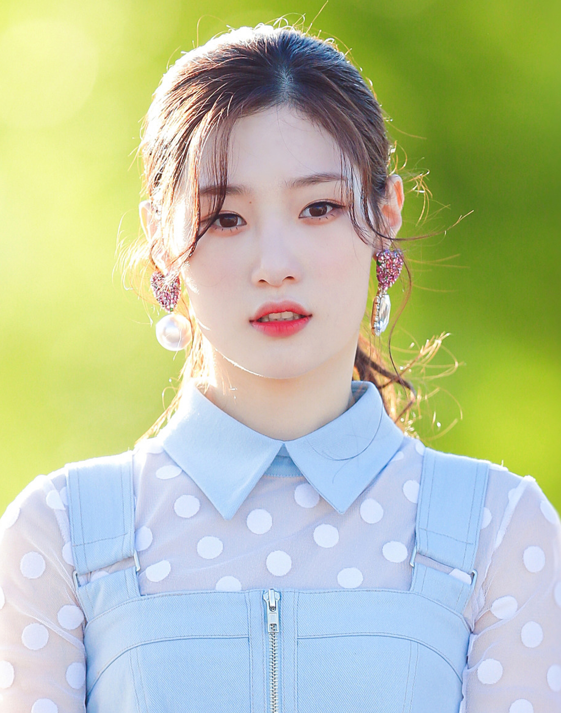 Jung Chae-yeon at Han River Busking Event on June 10, 2017